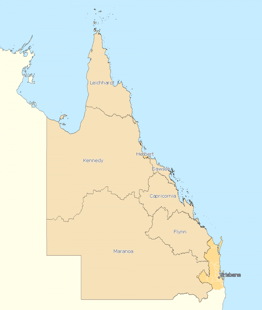 Incorporates or developed using Administrative Boundaries ©PSMA Australia Limited licensed by the Commonwealth of Australia under Creative Commons Attribution 4.0 International licence (CC BY 4.0). Derived from State and Territory Boundaries from the Australian Bureau of Statistics under Creative Commons Attribution 2.5 Australia license (CC BY 2.5 AU)